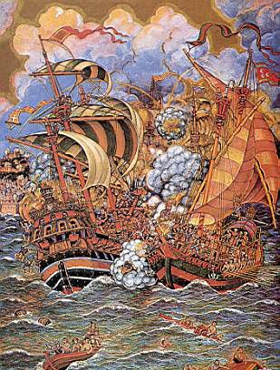 Ottoman ship and Spanish ship bombarding each other during the battle of Tunis in 1535